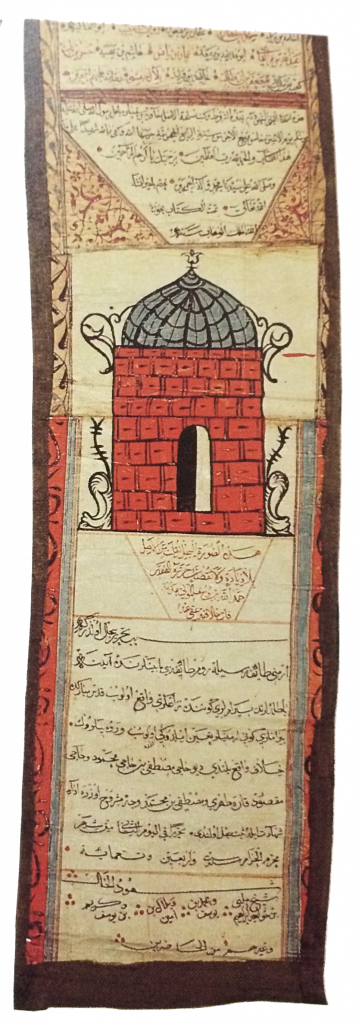 Saladin's ferman to Armenians